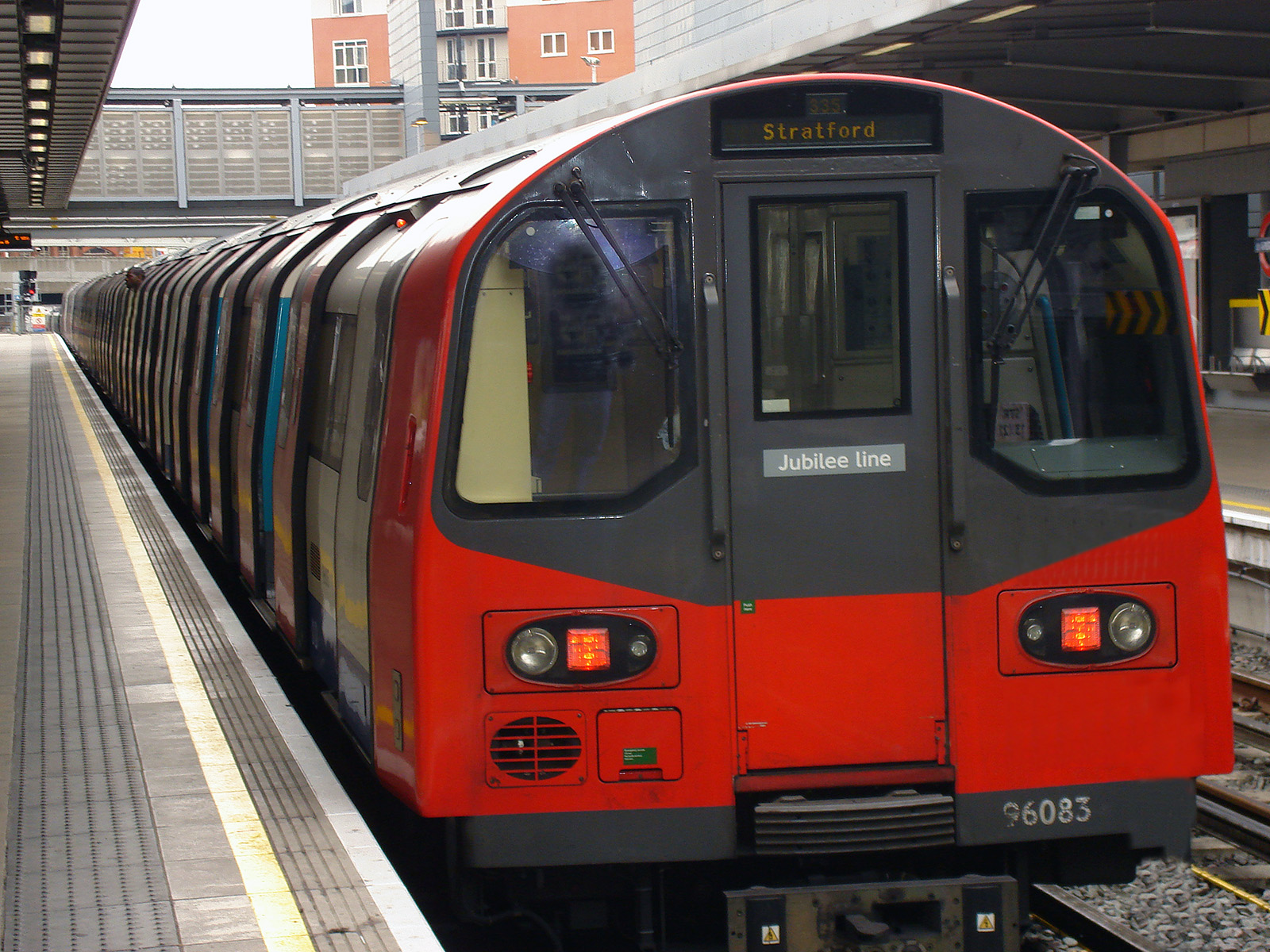 Jubilee Line, Underground train at Stratford Station